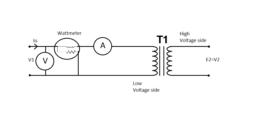 The watt meter, ammeter and voltmeter are connected as shown in the circuit.